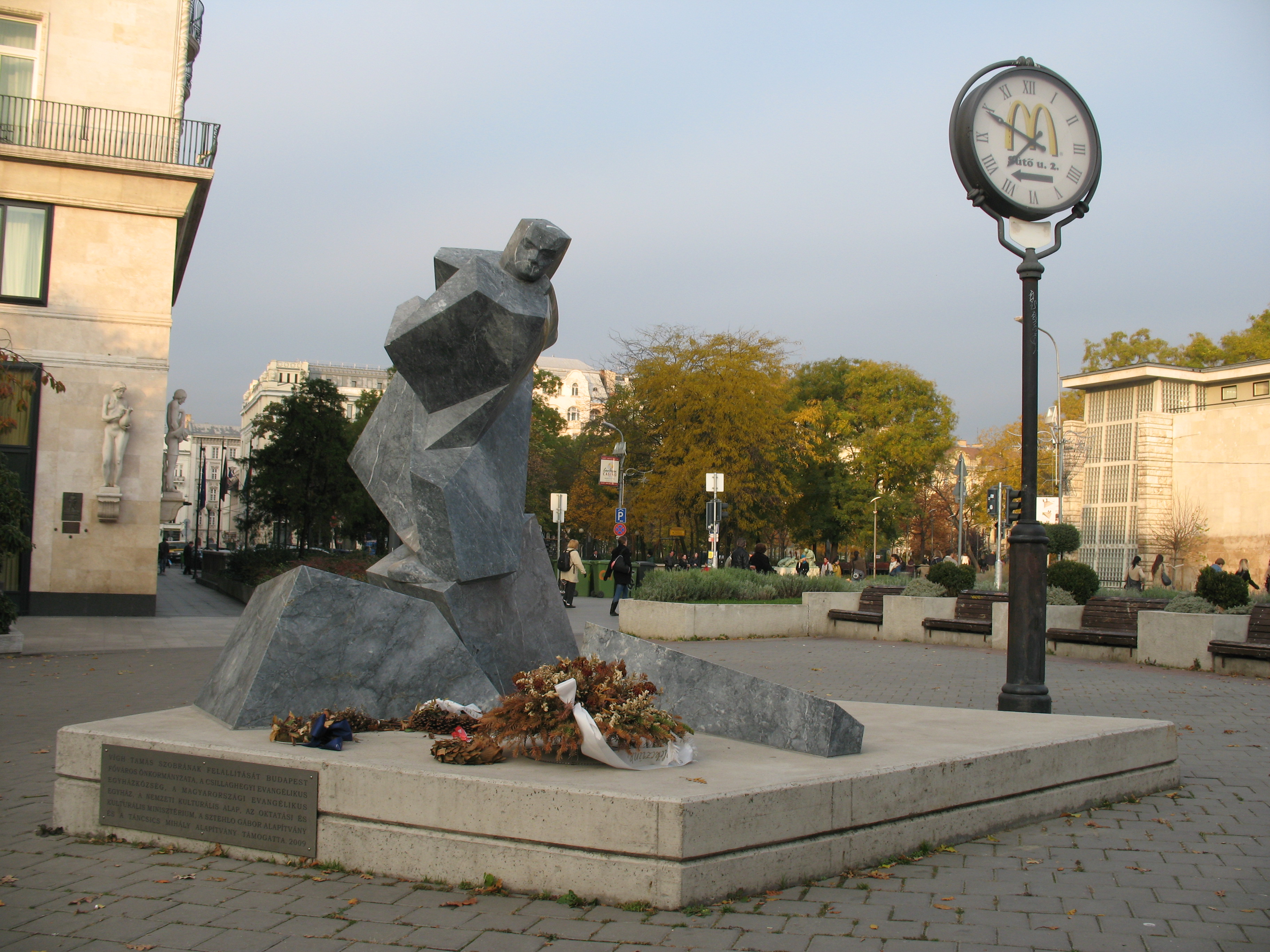 Monument of Gábor Sztehlo on Deák square in Budapest